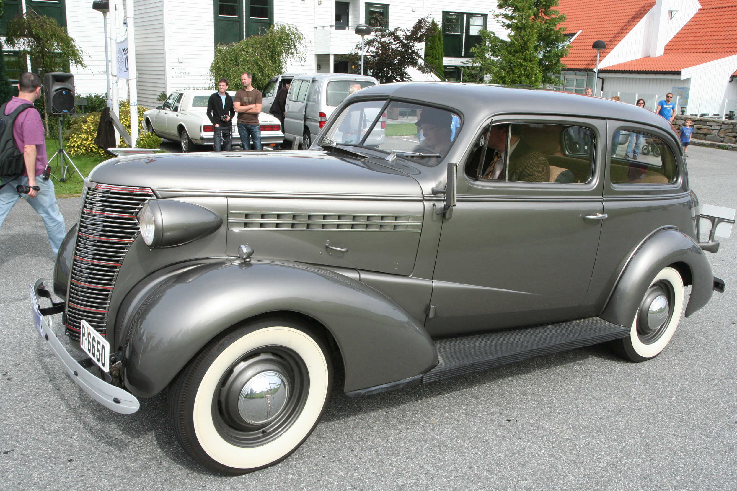 Captured at a Veteran-Car meeting on August 1, 2009 in Utstein, Norway. Sigve was the owner at the time.